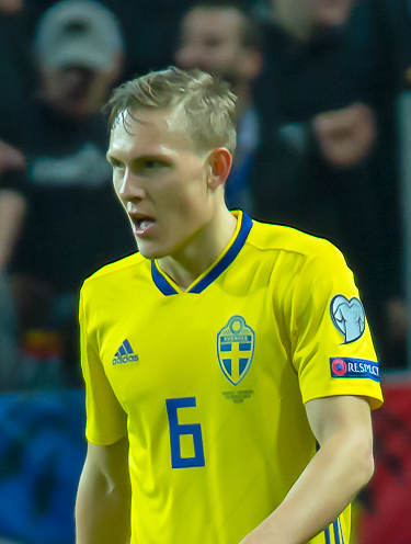 UEFA EURO qualifiers Sweden vs Romaina 20190323